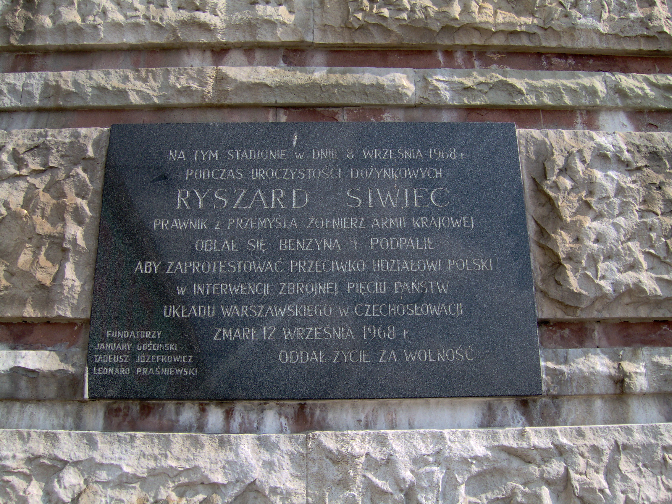 Plaque dedicated to Ryszard Siwiec at Stadion Dziesięciolecia in Warsaw. Taken by ProhibitOnions, 2006. The plaque reads: In this stadium on 8 September 1968, during a harvest festival, RYSZARD SIWIEC, lawyer from Przemyśl, soldier of the Home Army, poured gasoline over himself and set himself on fire in protest against the Polish participation in the armed intervention in Czechoslovakia of five countries of the Warsaw Pact. He died on 12 September 1968. He gave his life for freedom.